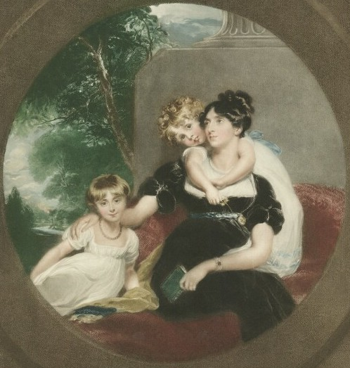 Lady Caroline Barrington (née Grey); Lady Georgiana Grey; Mary Elizabeth Grey (née Ponsonby), Countess Grey by Samuel Cousins, after Sir Thomas Lawrence mezzotint printed in colours, 1831 (circa 1805) 15 in. x 11 3/4 in. (380 mm x 299 mm) plate size; 20 3/8 in. x 16 1/8 in. (517 mm x 410 mm) paper size Given by Westminster Public Libraries, 1943 Reference Collection NPG D34958